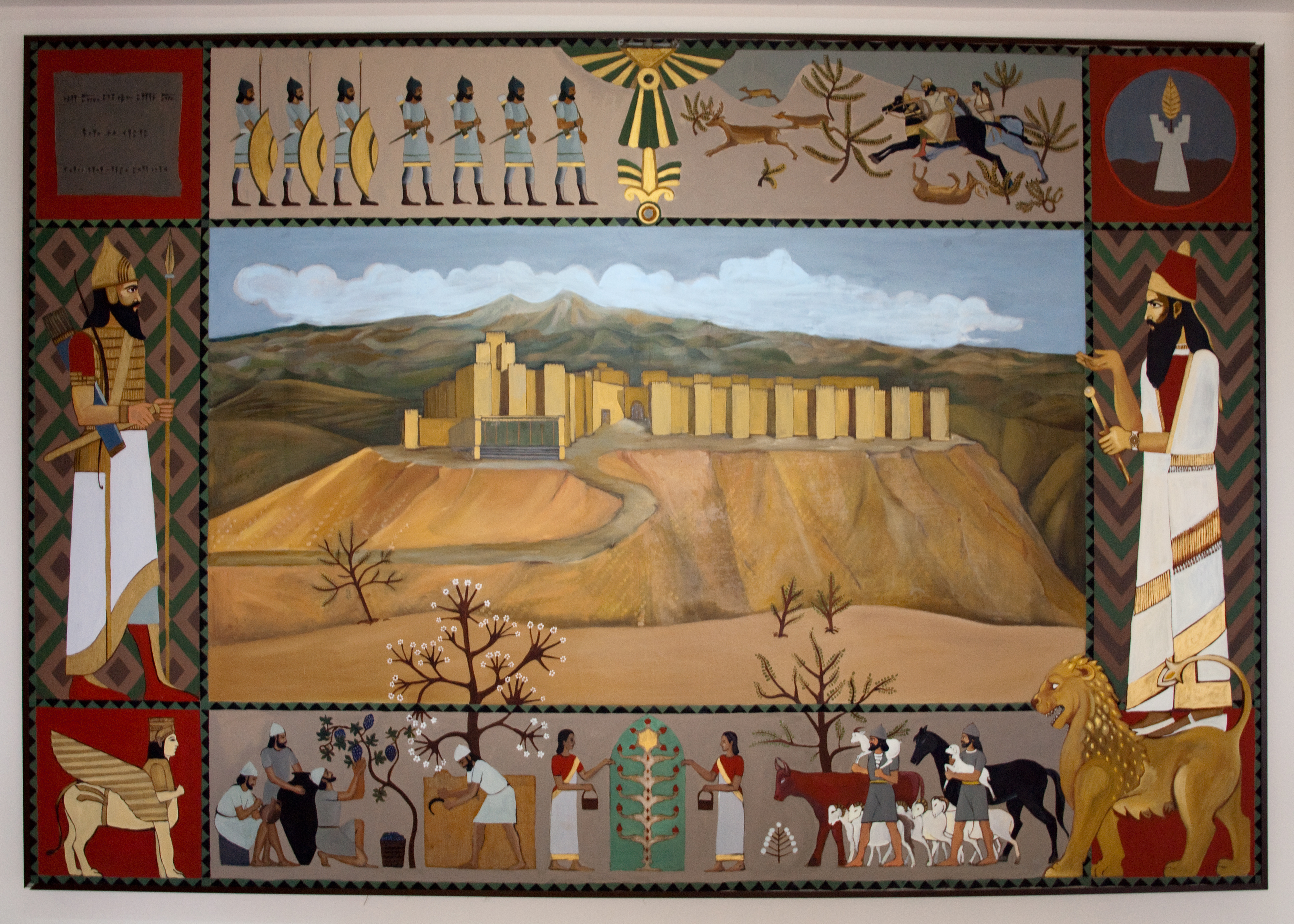 Erebuni museum, modern image of what Erebuni may have looked like